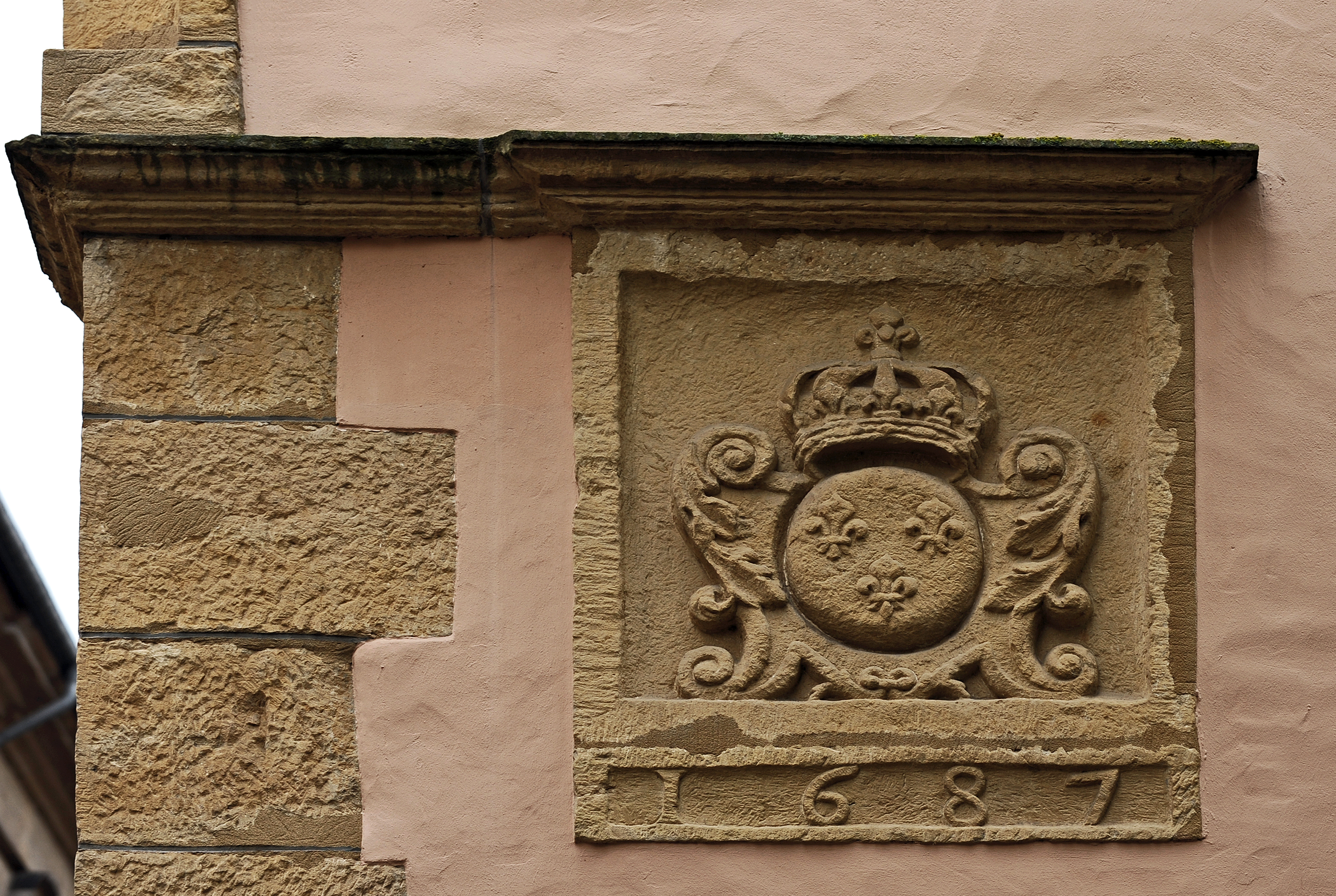 Coats of arms of Louis XIV of France in Luxembourg City. The sculpture was realised after the stay of the Sun King in Luxembourg in 1687.